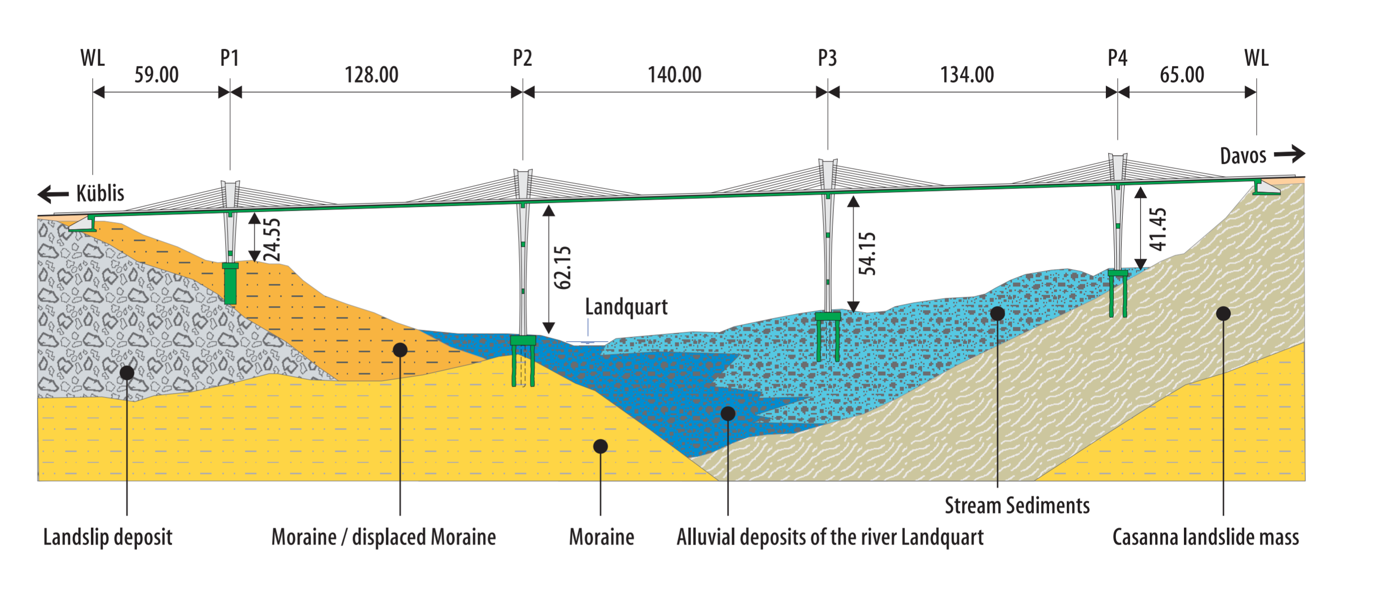 Drawing of the elevation with geology of the Sunniberg Bridge produced November 1998 by Tiefbauamt Graubünden in Switzerland, which encourages the reuse of it with mentioning of the source.